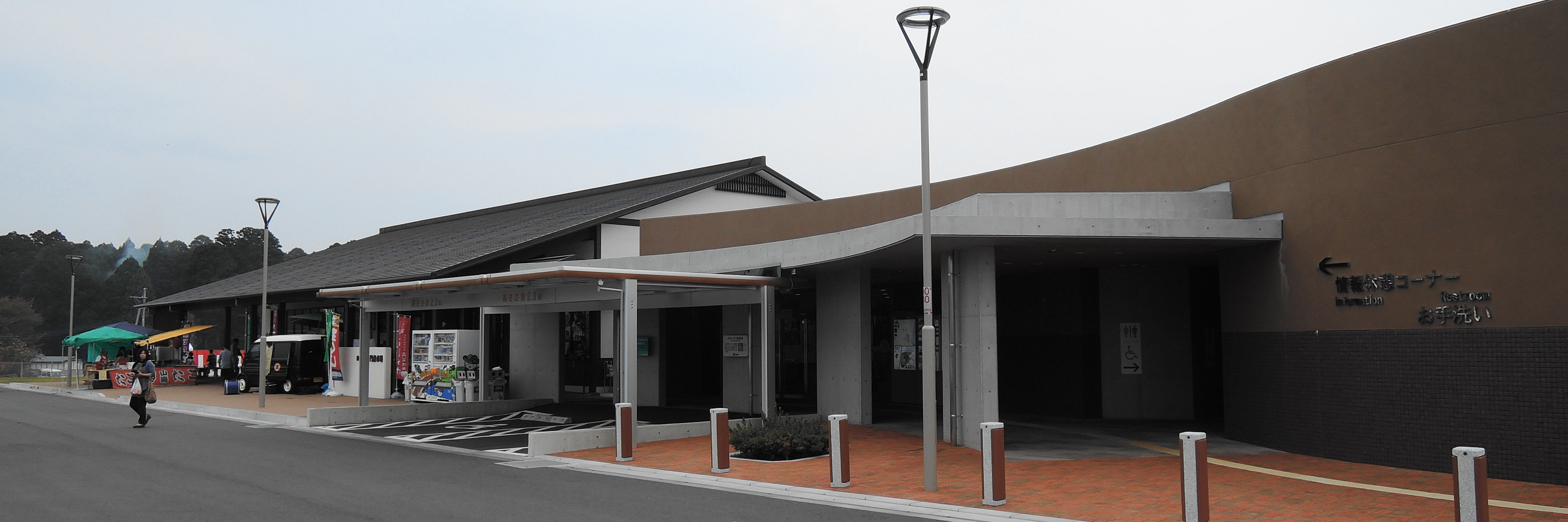 Road to station Tsuno,Miyazaki prefecture,Japan